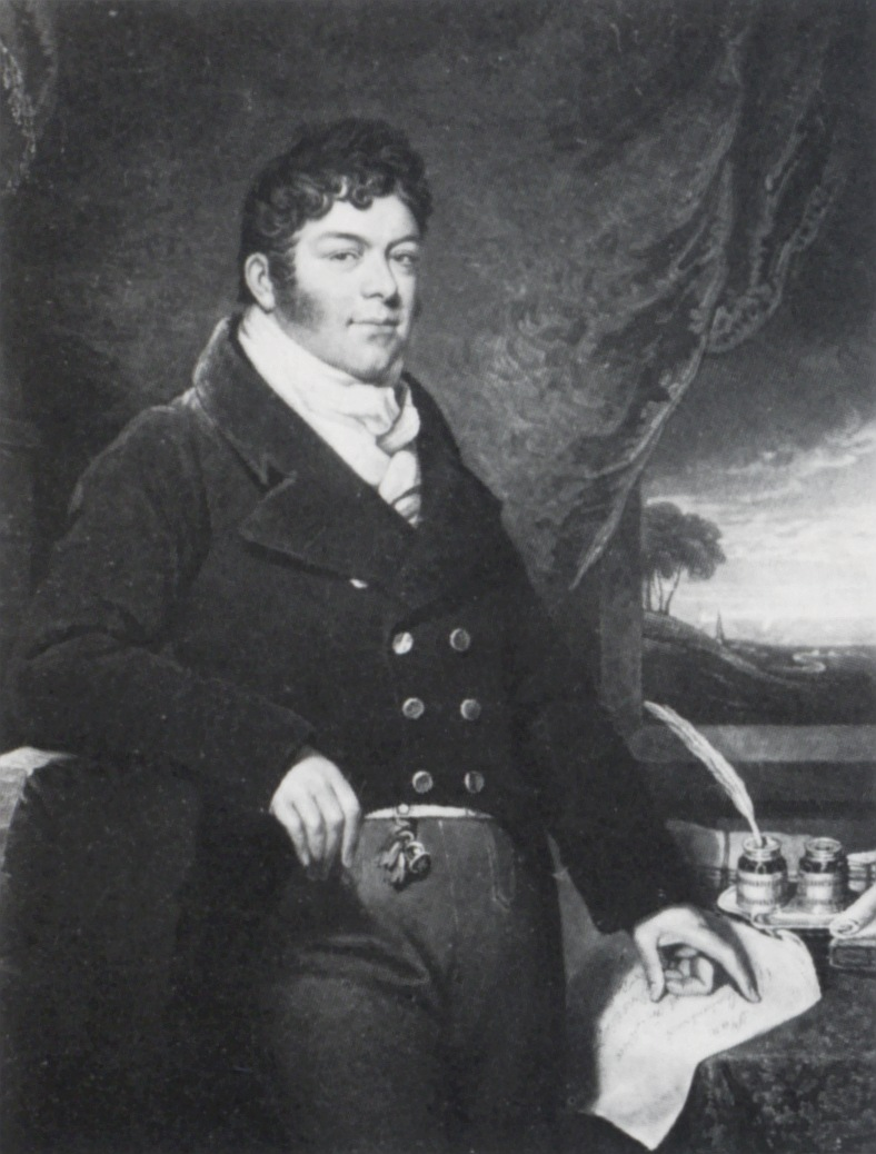 Wiliam Alexander Madocks, MP for Boston in Lincolnshire (1773-1828) - mezzotint by Turner, after a 1812 painting